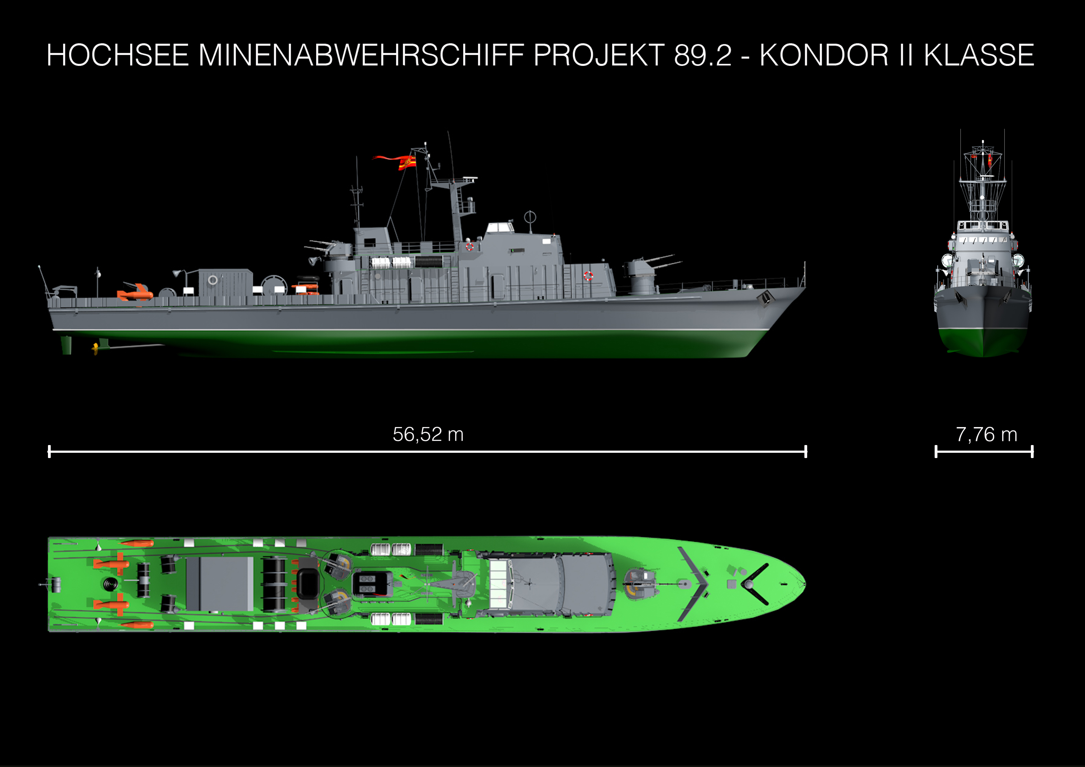 Three-sided view of the ocean defensive ship of the Volksmarine Project 89.2 - "Kondor II-Klasse"